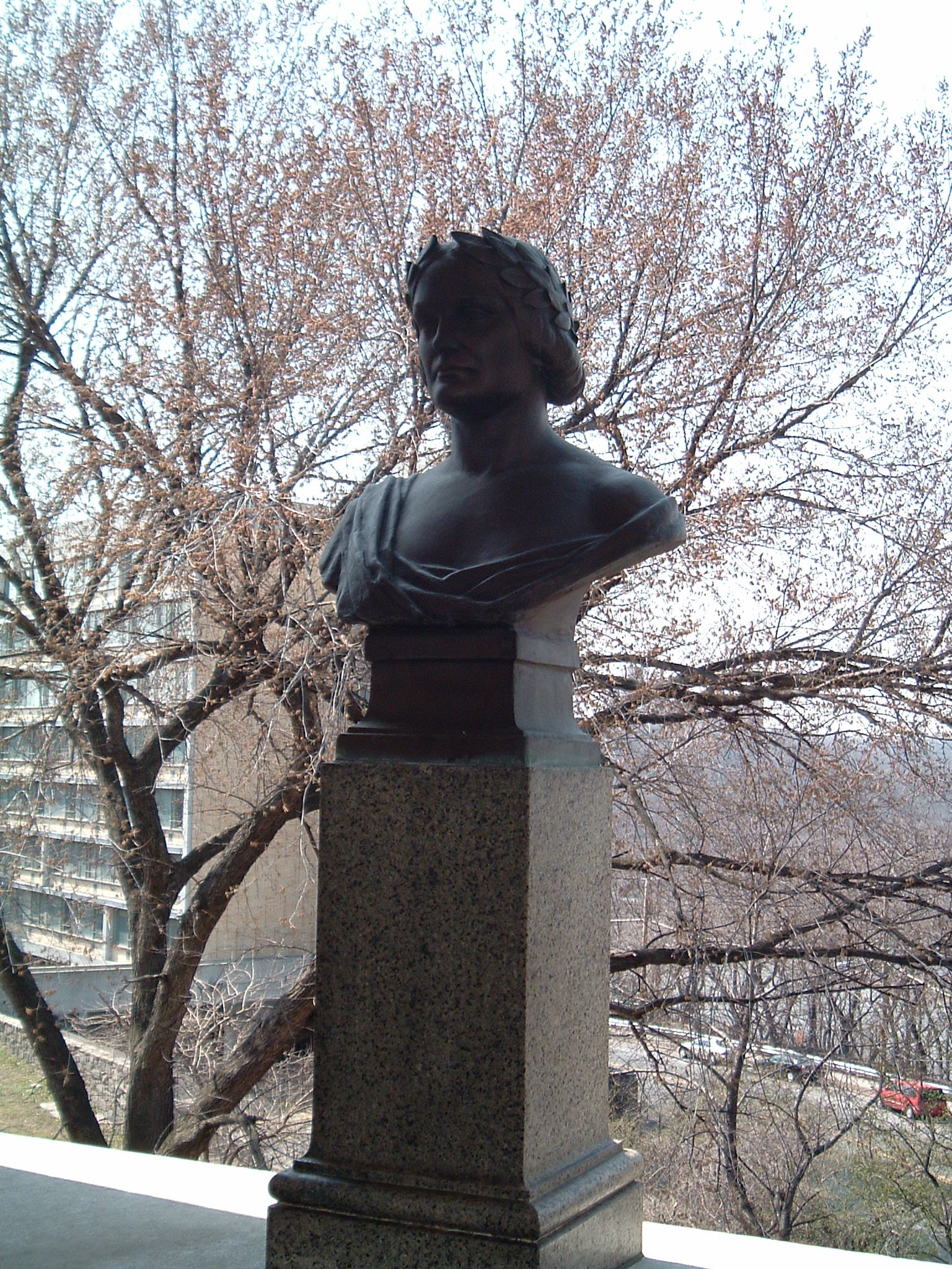 A bust of Charlotte Cushman from the Hall of Fame for Great Americans Taken by me, User:H0n0rH0n0r 16:36, 12 October 2007 (UTC).